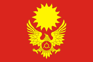 Flag of Magas, Ingushetia, Russia